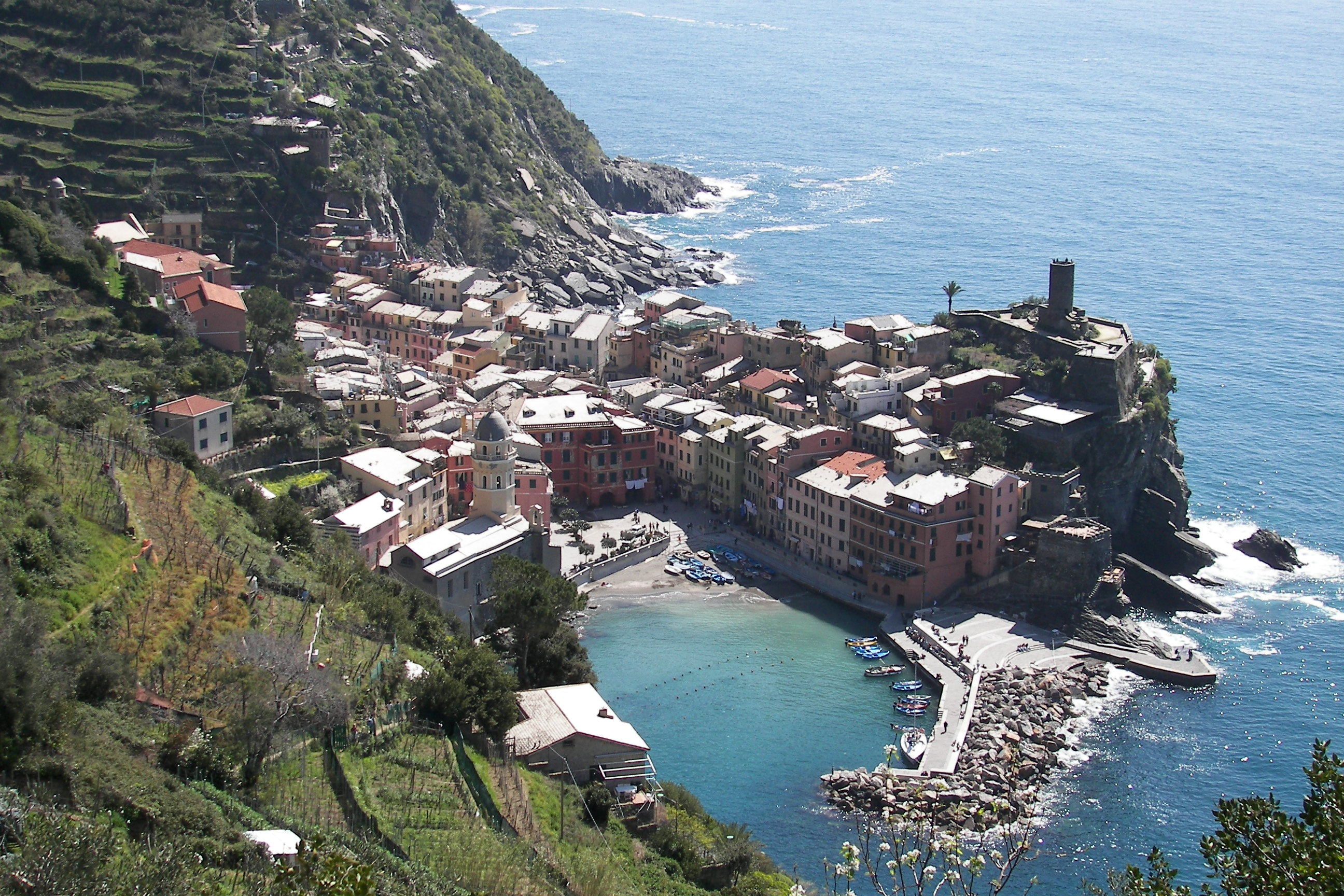 Vernazza town in Liguria, Italy. Vernazza is in the cinque terre region.